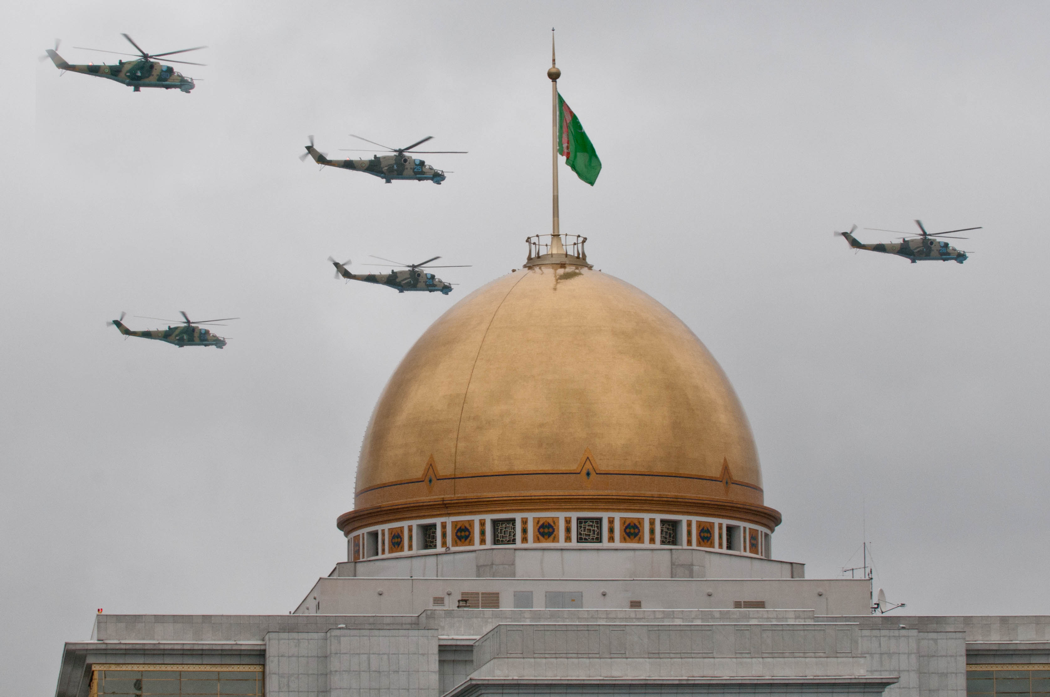 Celebrating the 20th year of independence in Turkmenistan